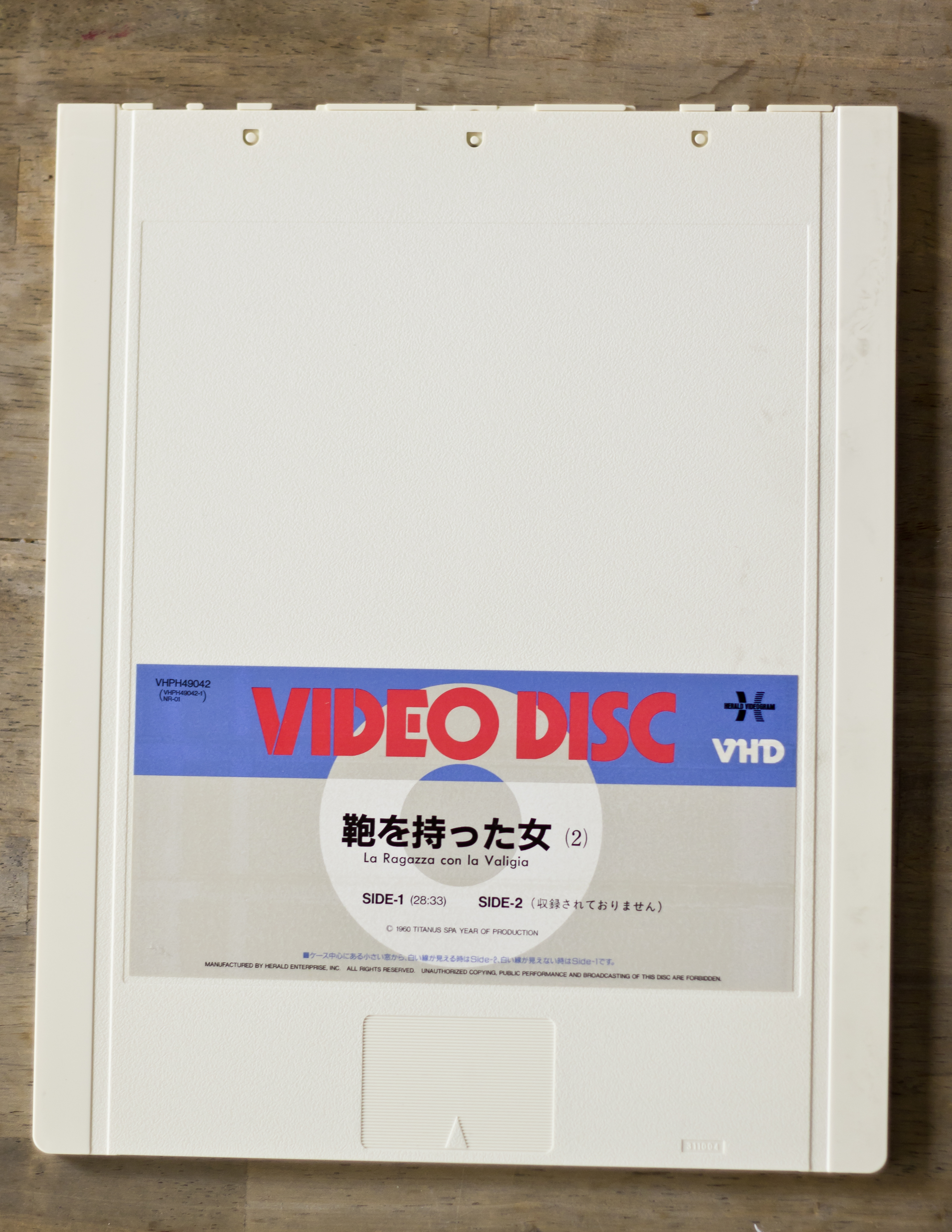 Japanese VHD (Video High Density) cassette of "La Ragazza con la Valigia" / "鞄を持った女".